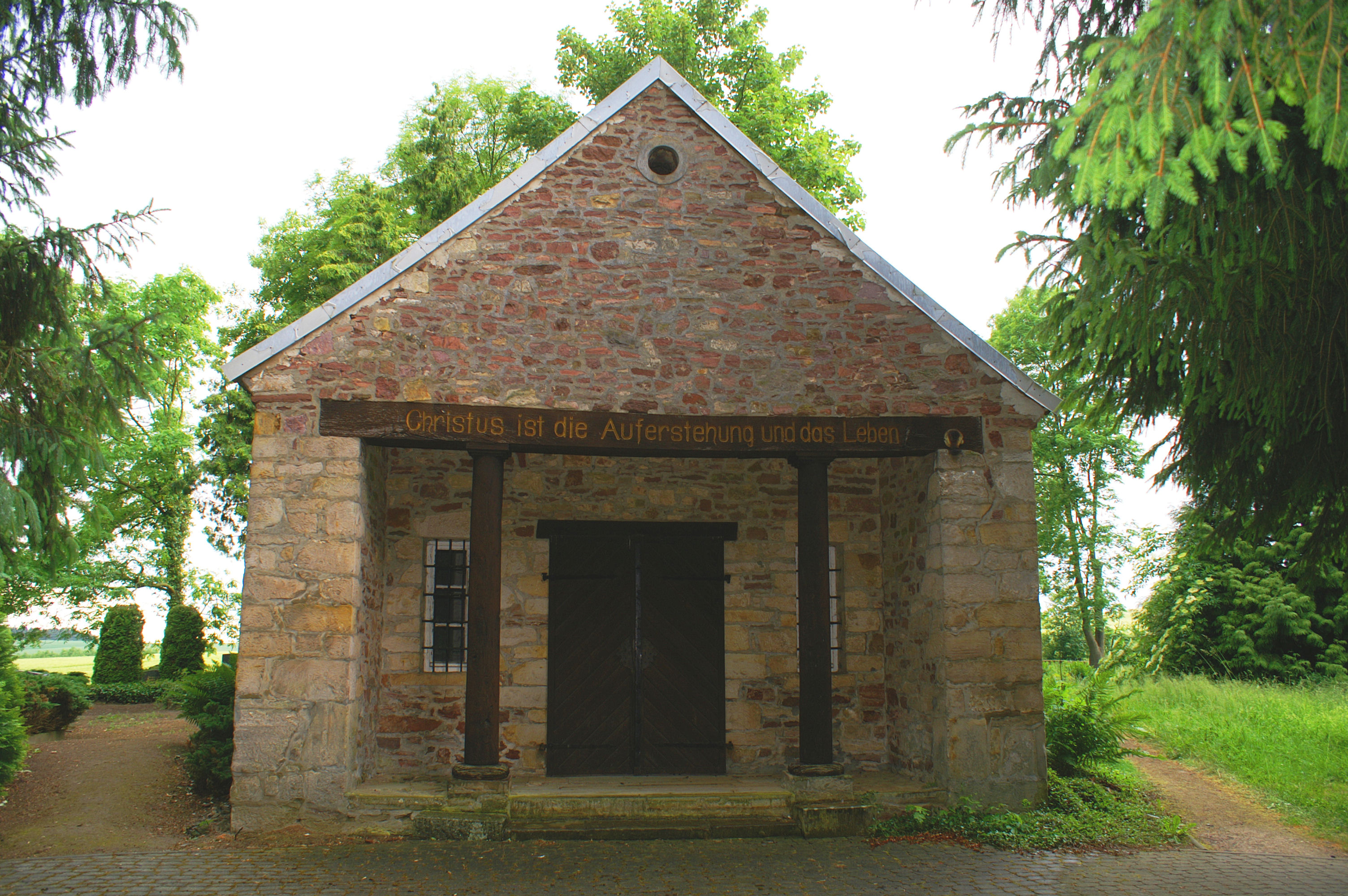 Cemetery chapel Bebertal